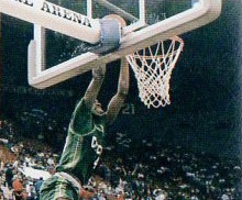 Concord High School senior Shawn Kemp pictured performing a slam dunk as a member of the 1987-88 Concord Minuteman boys' varsity basketball team.